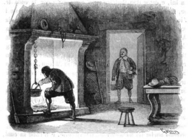 The most famous Italian historical romance,and the masterpiece of Alessandro Manzoni.